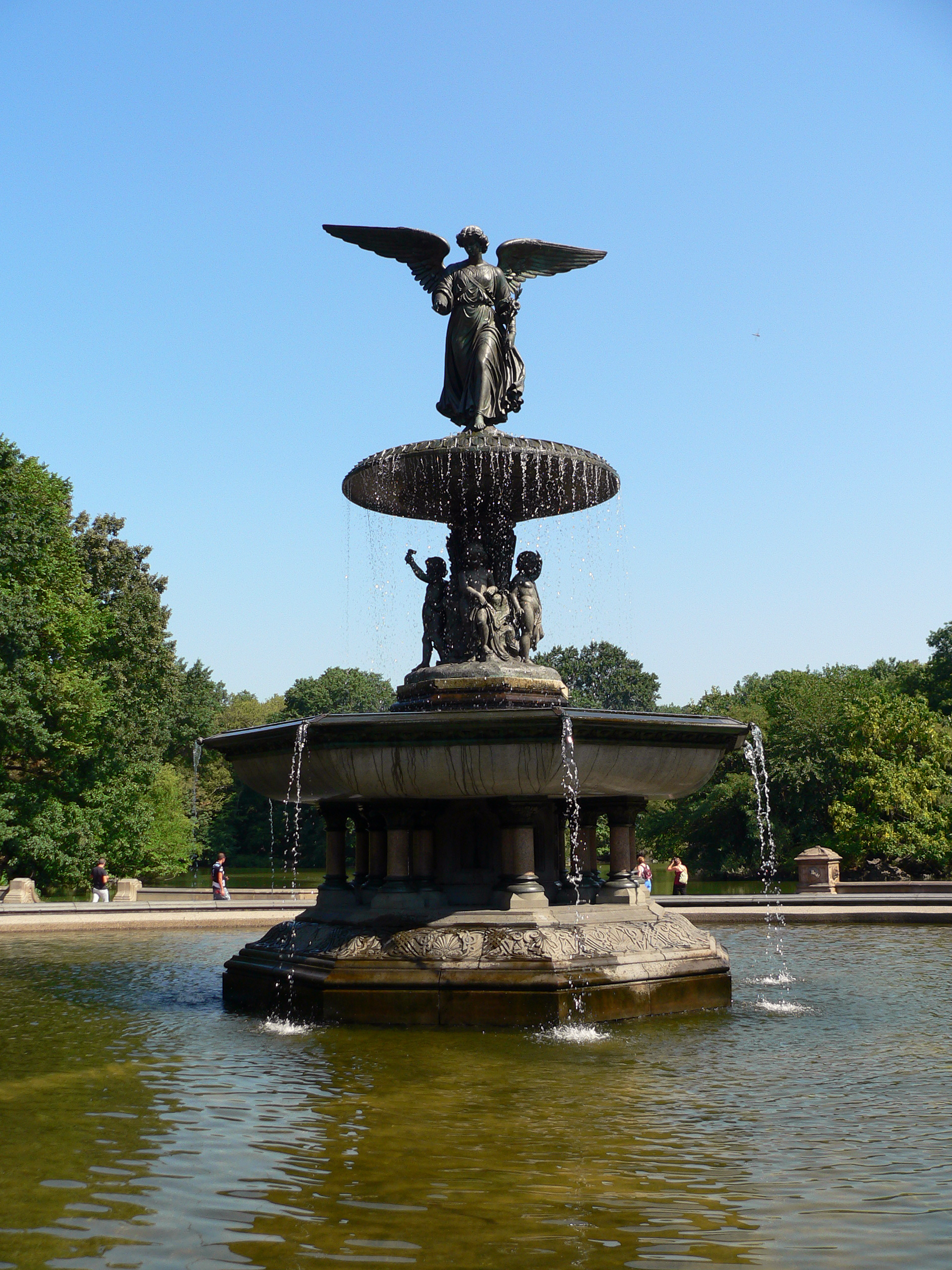 Bethesda Fountain by Emma Stebbins, (Central Park, NYC)